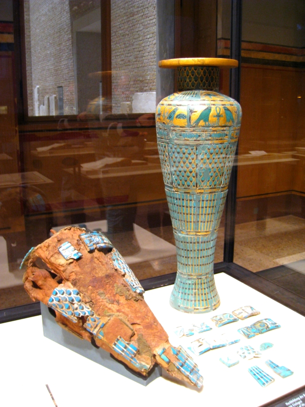 Ritual vase of Neferirkare Kakai - 5th dynasty of Egypt - Egyptian museum of Berlin